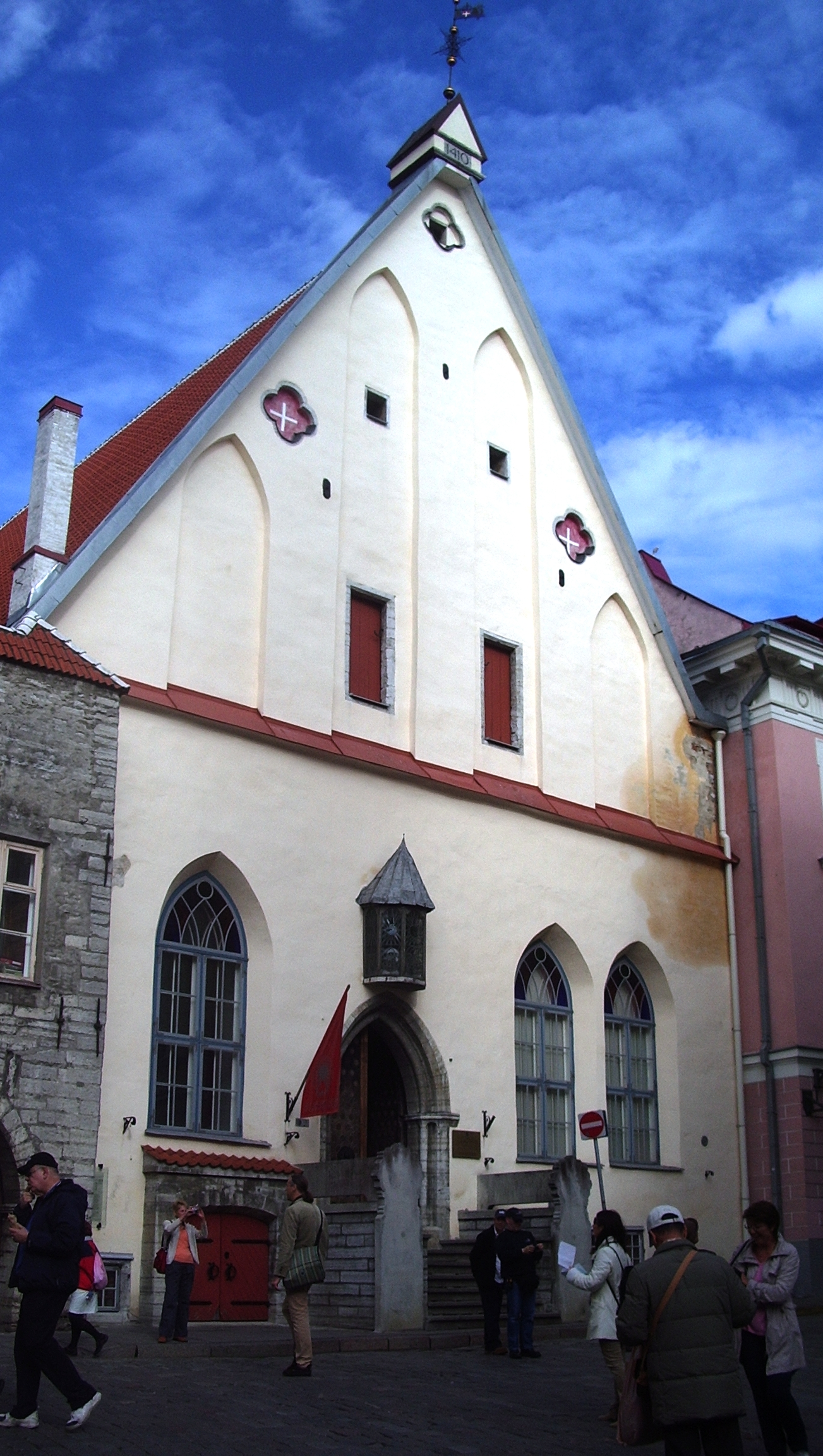 History Museum of Estonia, 17 Pikk street in Tallinn old town